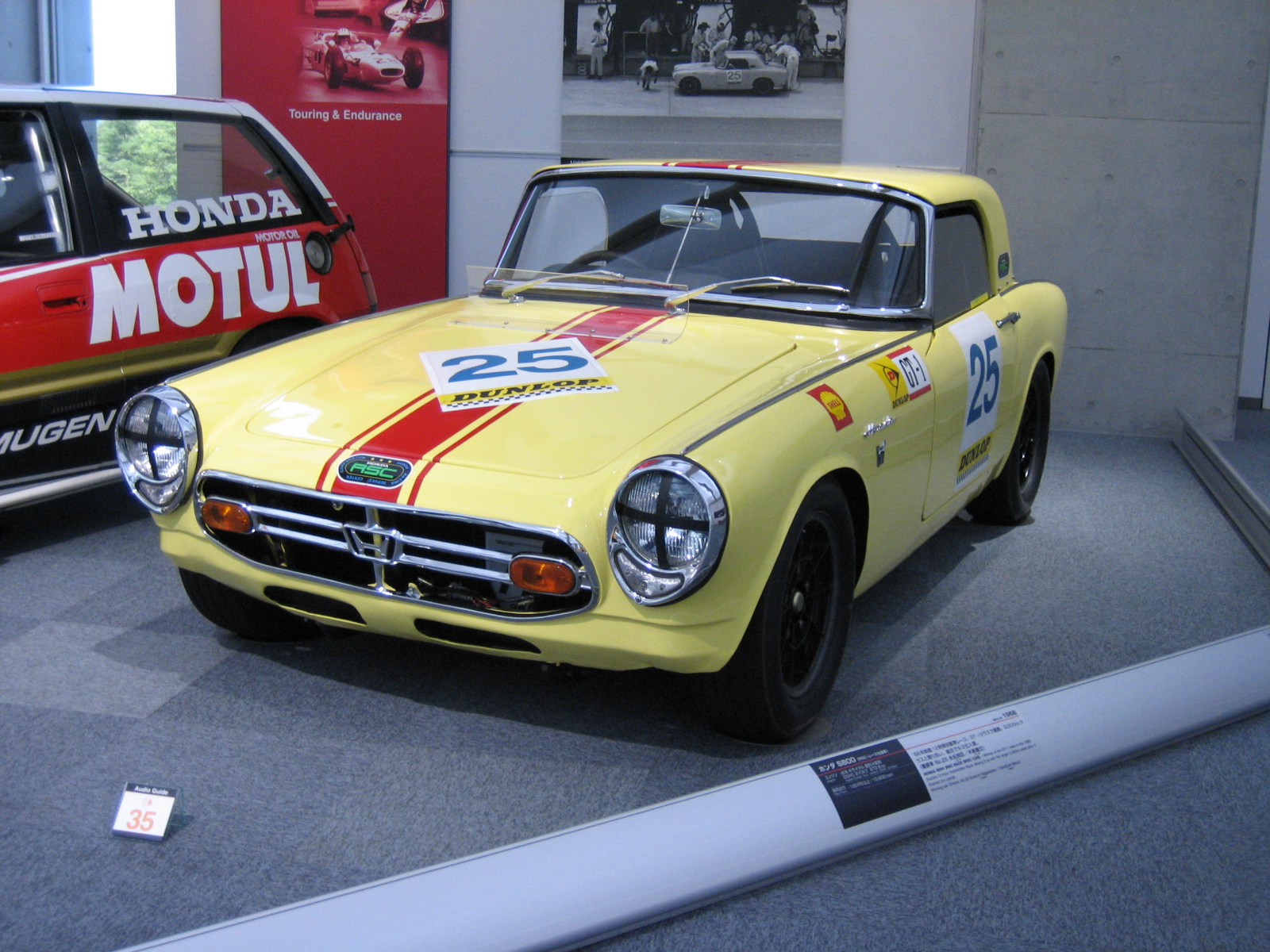 I photoed the Honda S800 race car in the Honda collection hole.